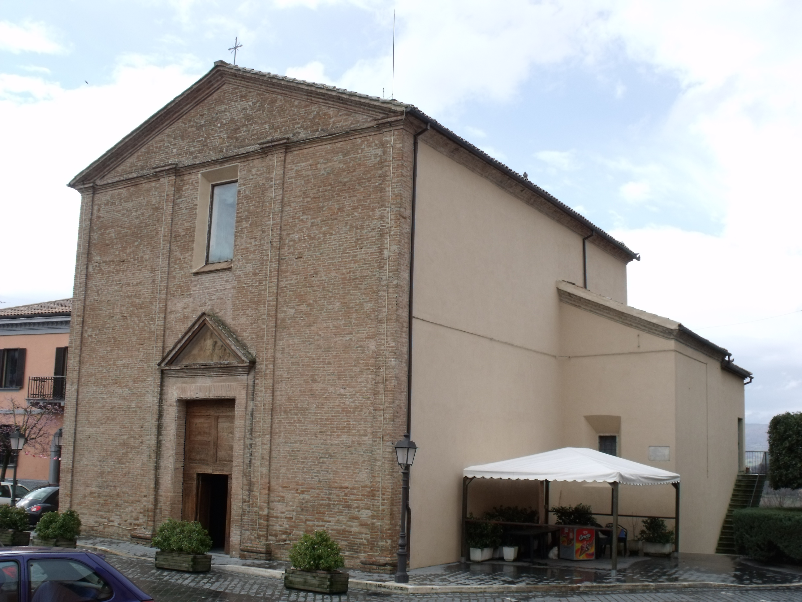 Church Chiesa parrocchiale di San Martino in Fabro, Province of Terni, Umbria, Italy